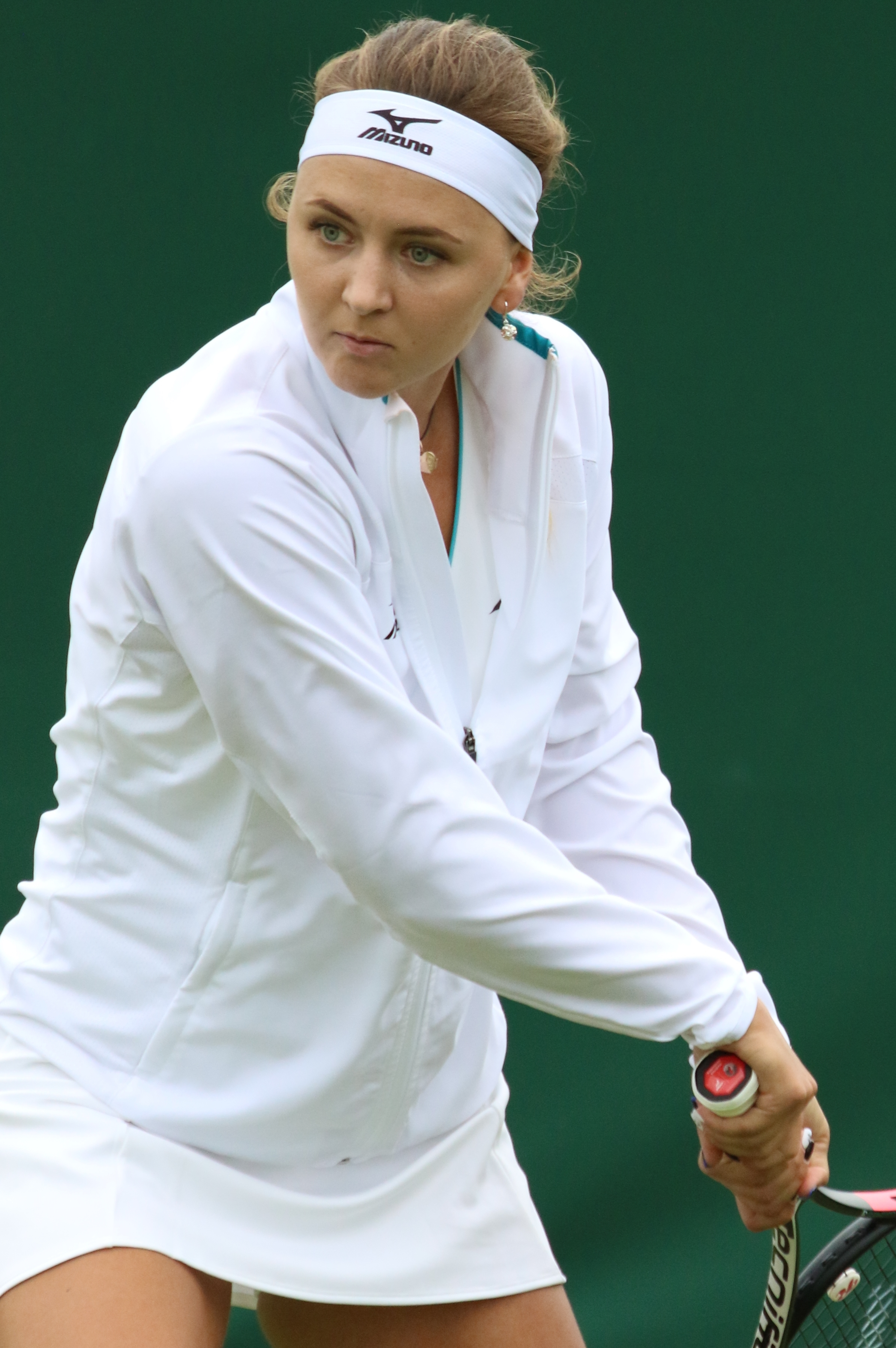 2019 Wimbledon Qualifying Tournament.